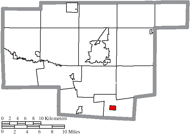 Map of the municipal and township boundaries of Marion County, Ohio, United States, as of the 2000 census, with the location of the village of Waldo highlighted. Township borders are shown only in unincorporated areas in order to differentiate incorporated and unincorporated areas more clearly.